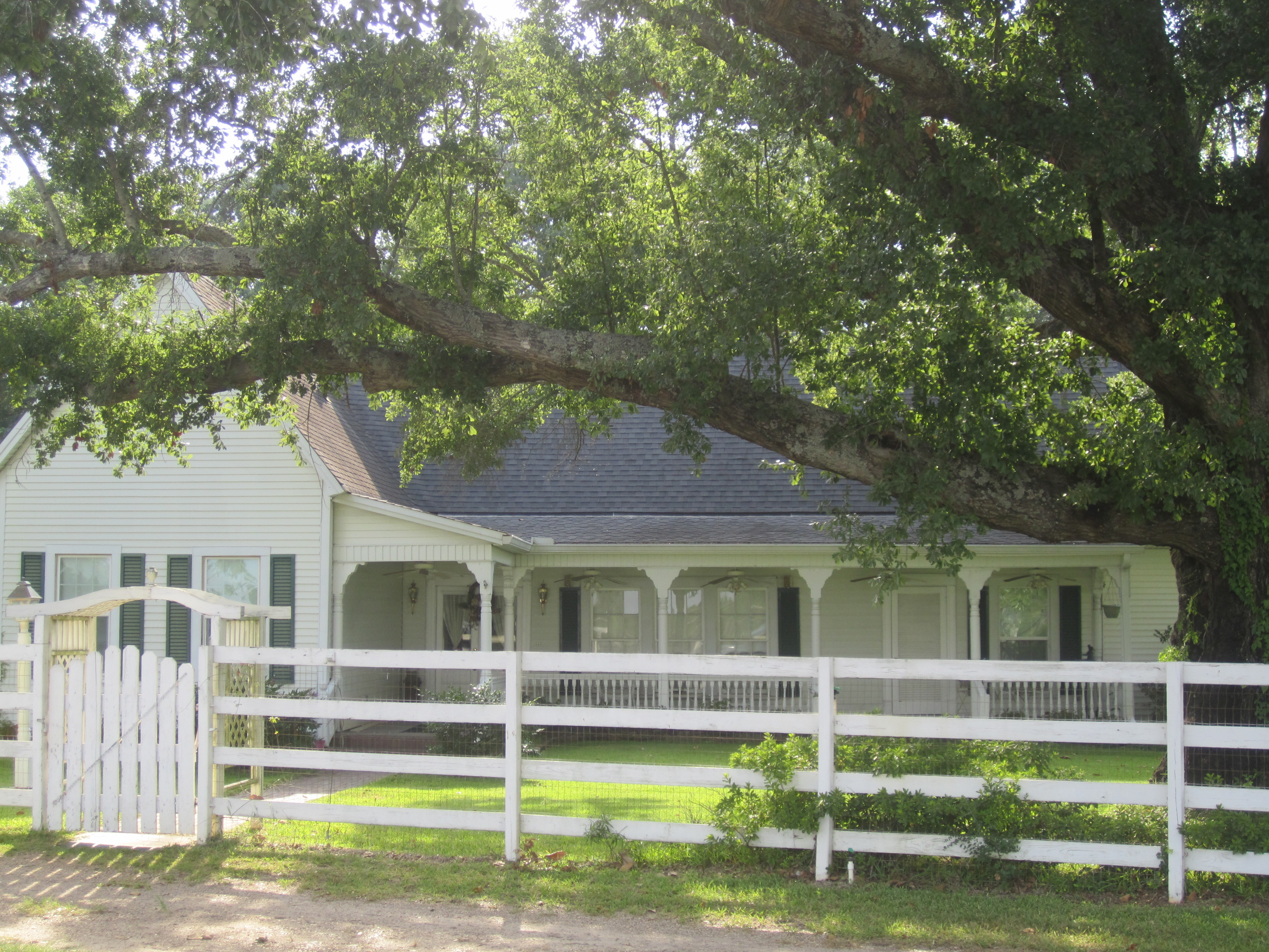 I took photo with Canon camera in Sibley, LA.